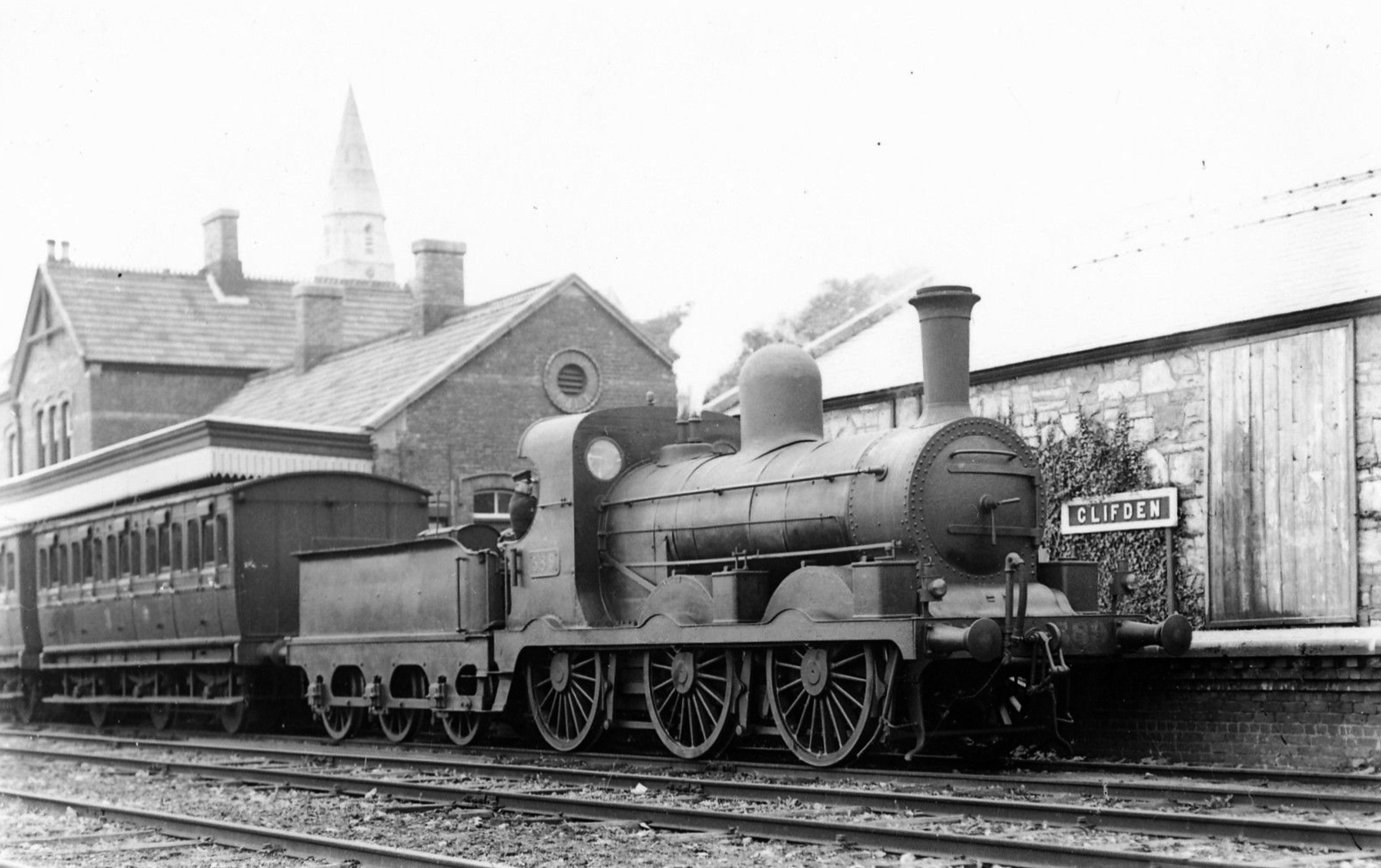 0-6-0 at Clifden